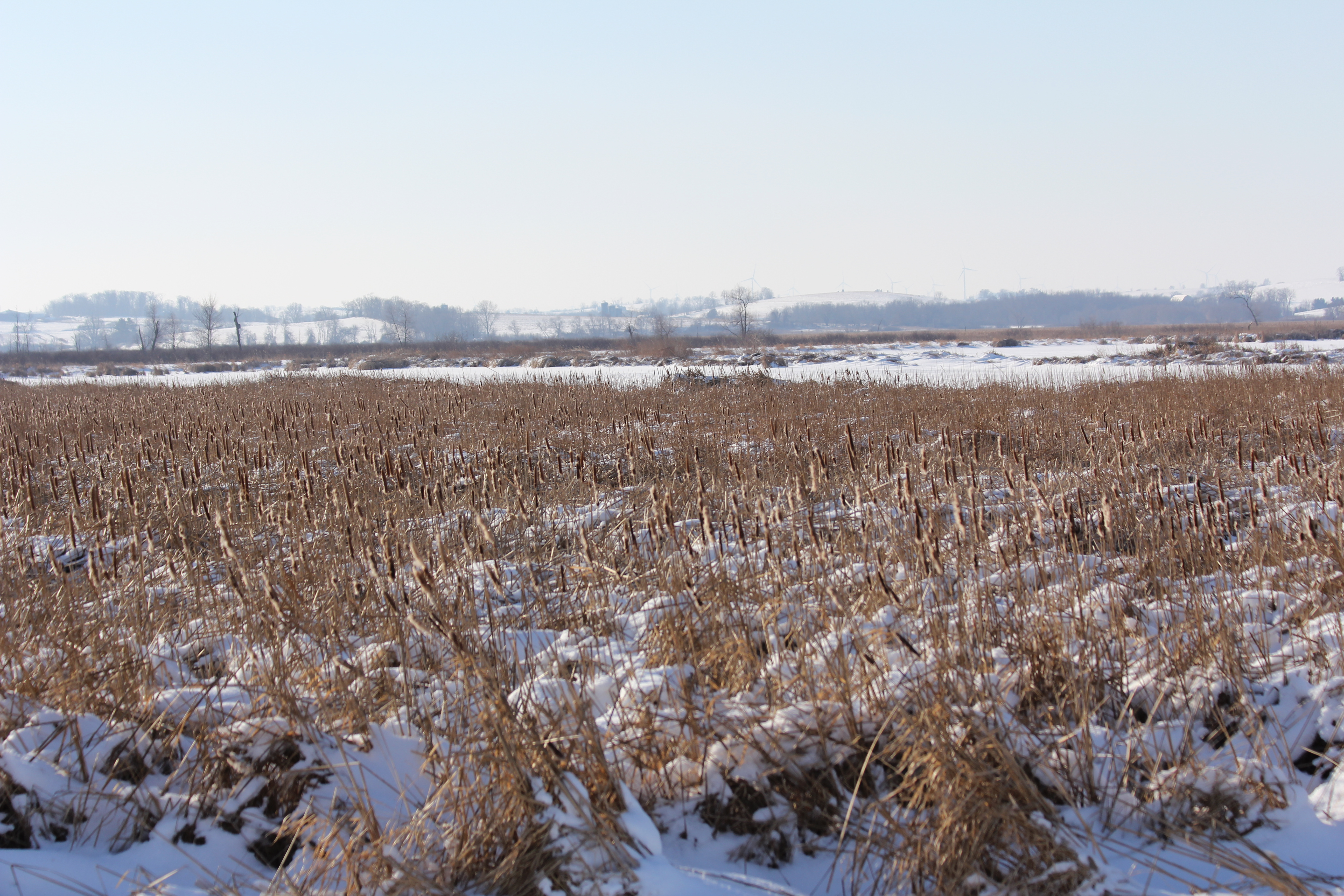 Winter at the Teresa Marsh Wildlife Area in Dodge County. Taken from Highway 28 west of U.S. Route 41.